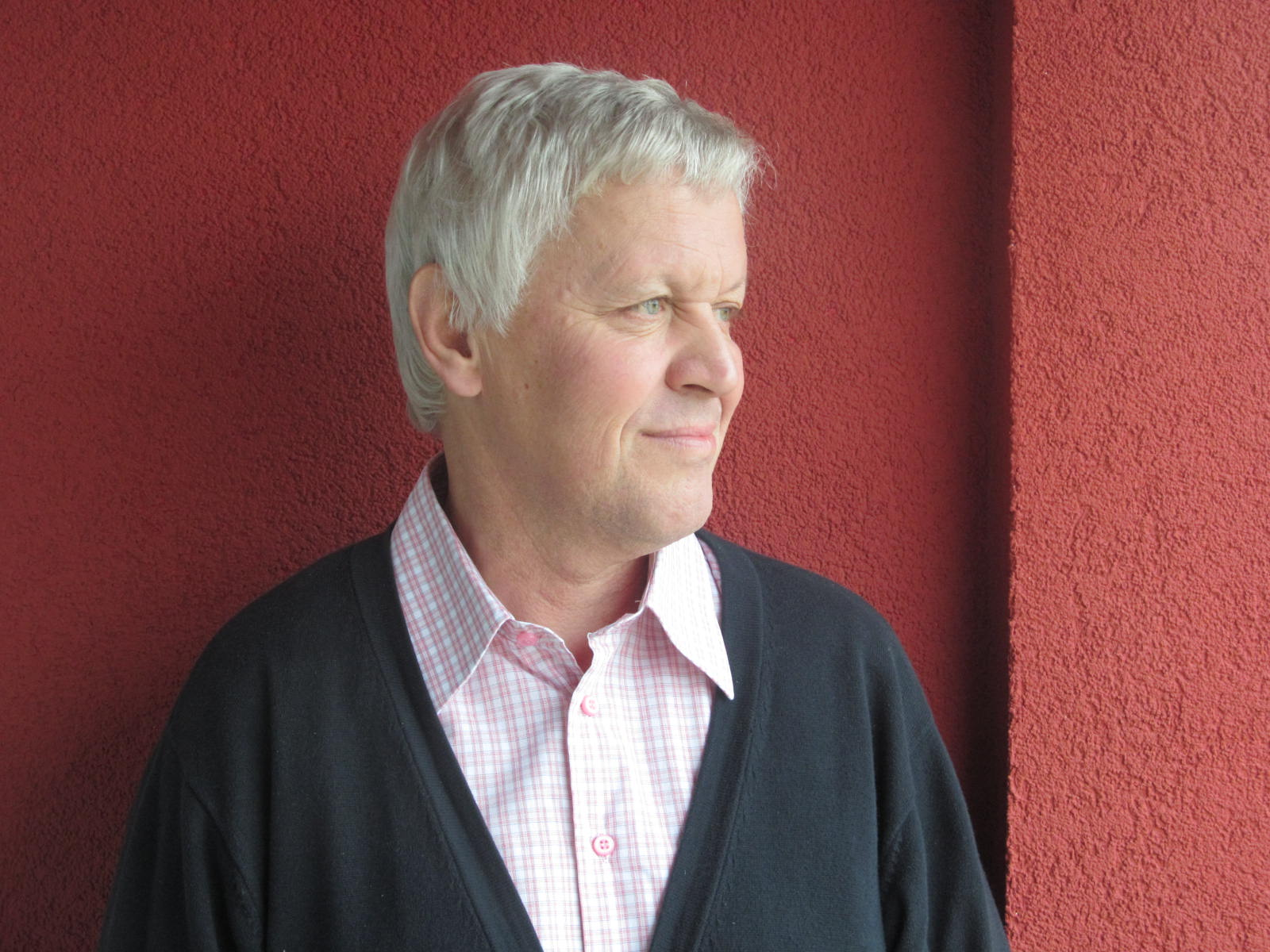 Czech Archivist Bohumír Roedl